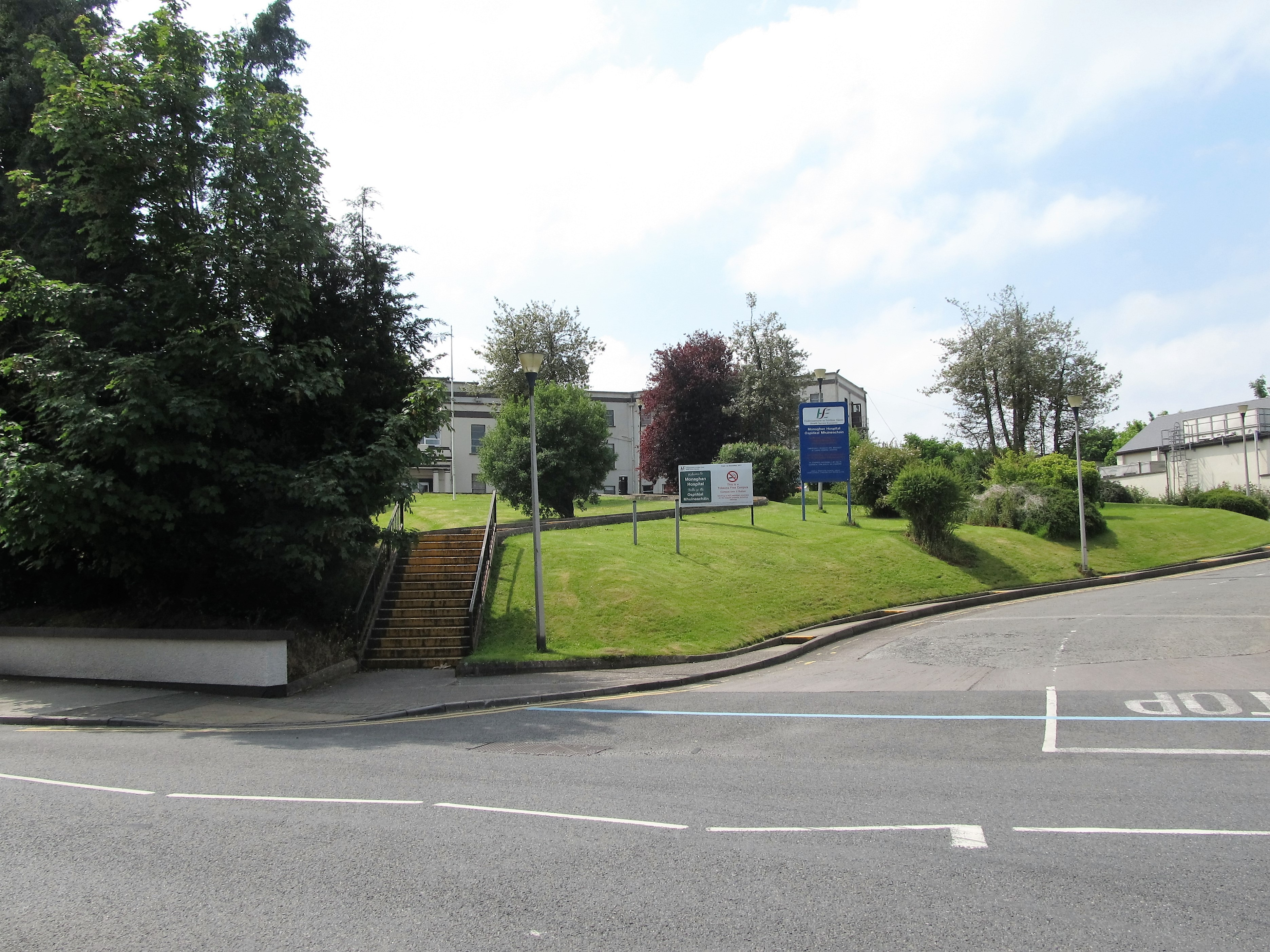 Monaghan Hospital, Mullach Glas